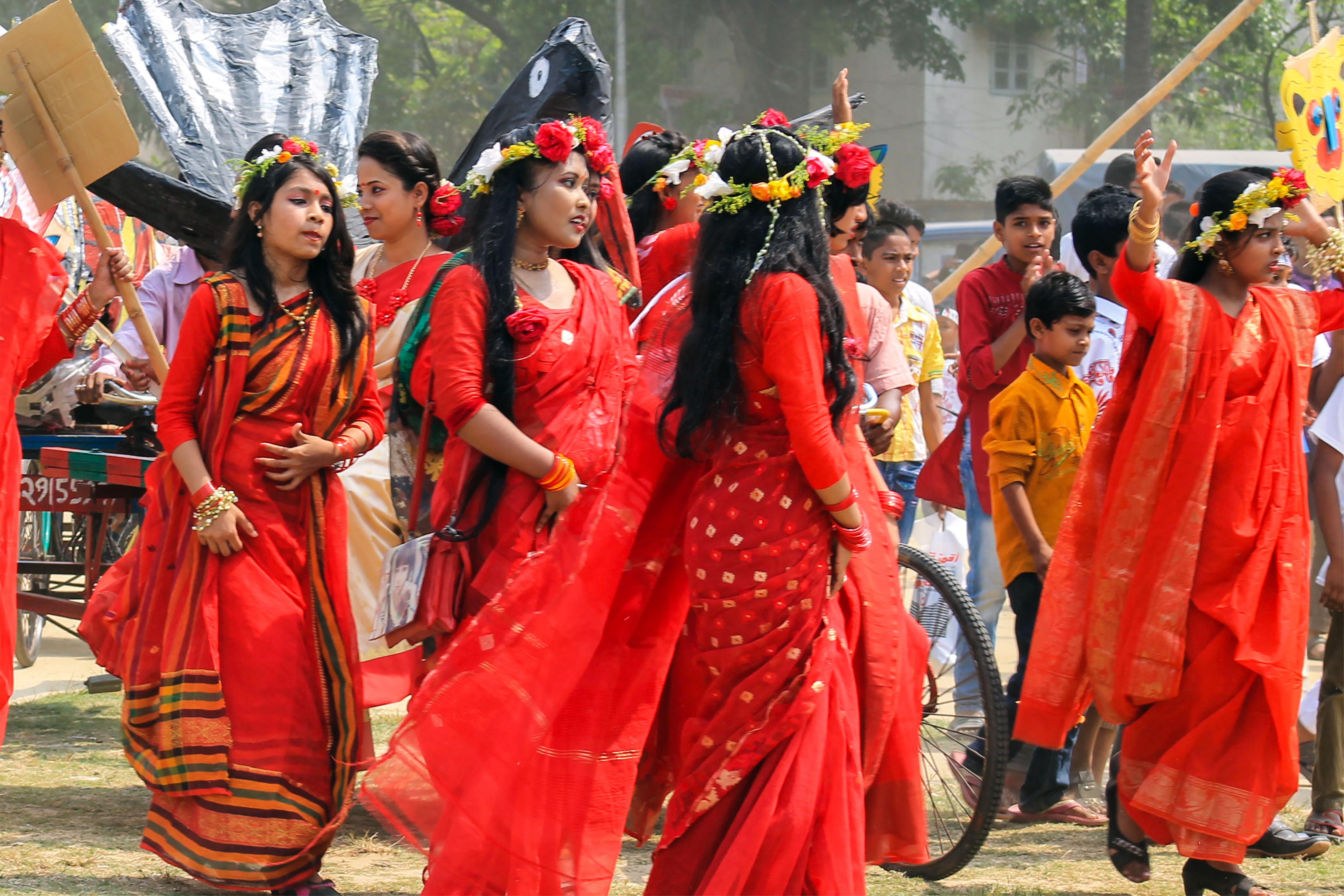 Bangladeshi girls wearing traditional sari with flower crown in Pohela Boishakh celebration at Agrabad, Chittagong, 2016.